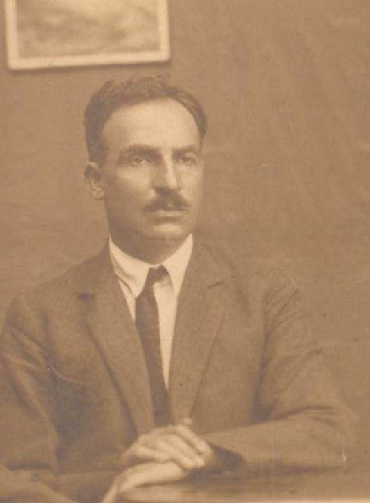 Elin Pelin, Bulgarian writer